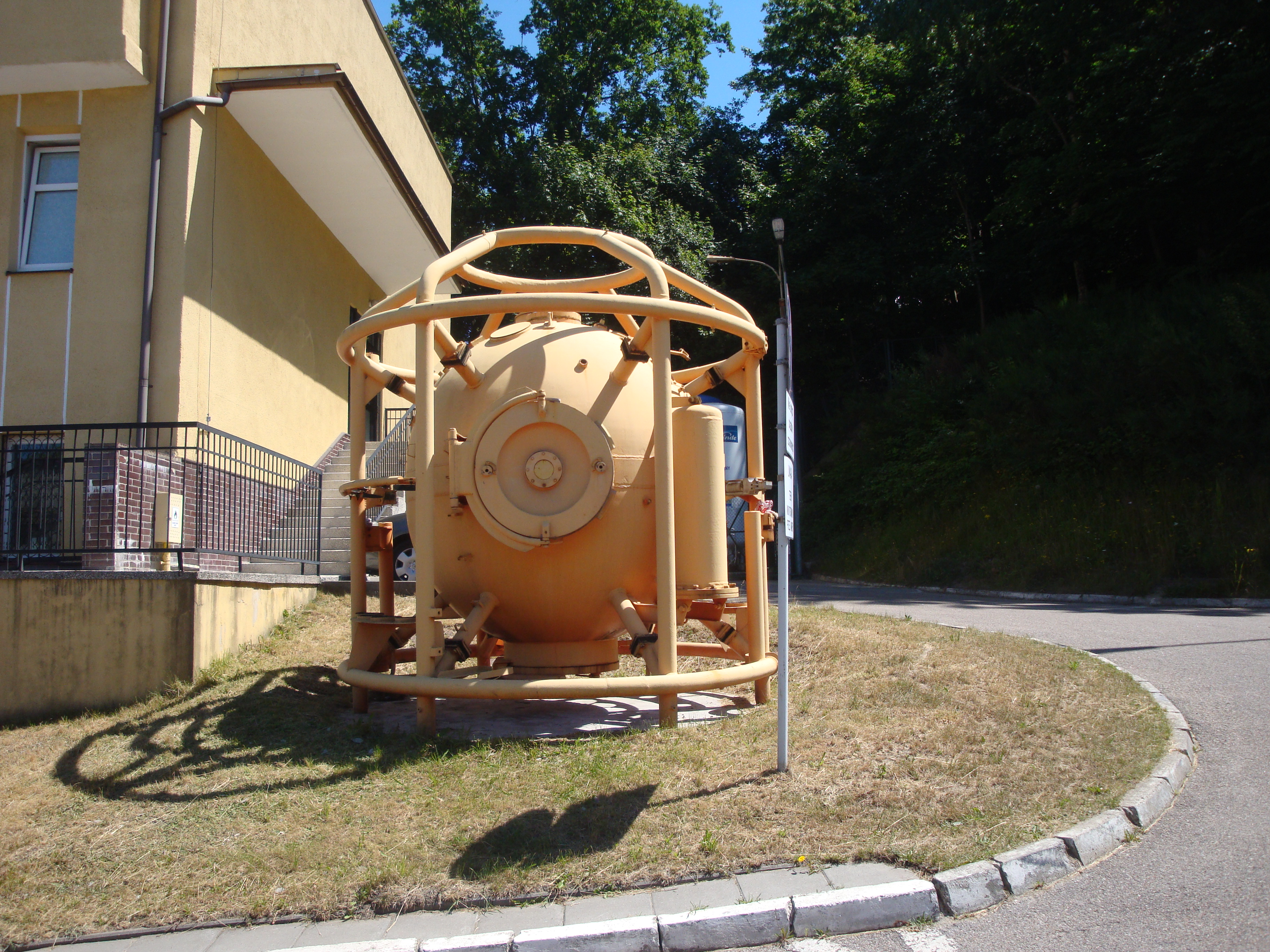 Diving bell for saturated divings